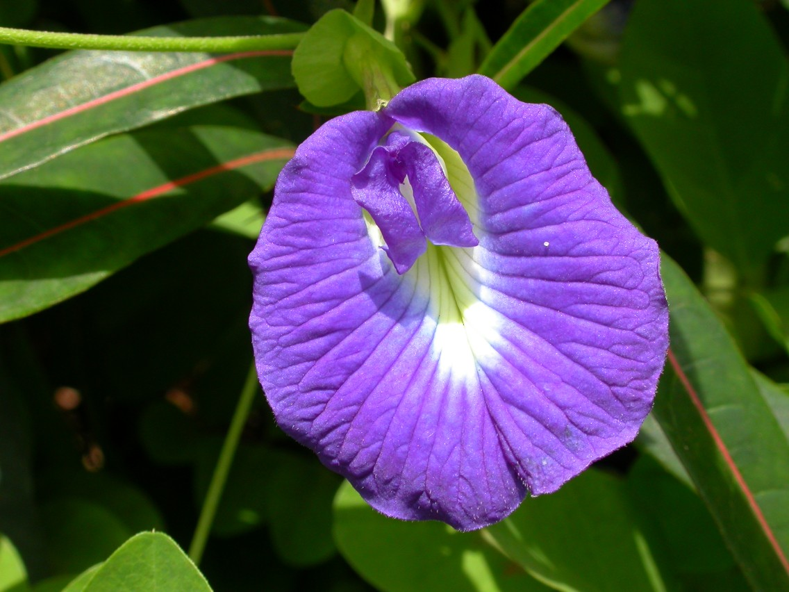 Flower of a Clitoria species. Ornamental plant in a garden in Pô, Burkina Faso.